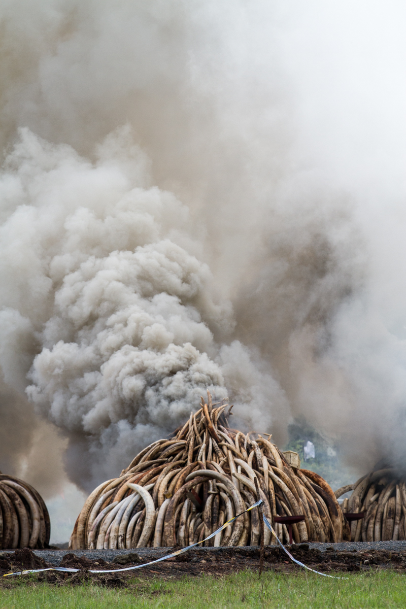 105 tons of ivory and 1 ton of rhino horn burn in Nairobi National Park on 30th April 2016. They were set ablaze by President Uhuru Kenyatta in the largest ivory burn in hisory.